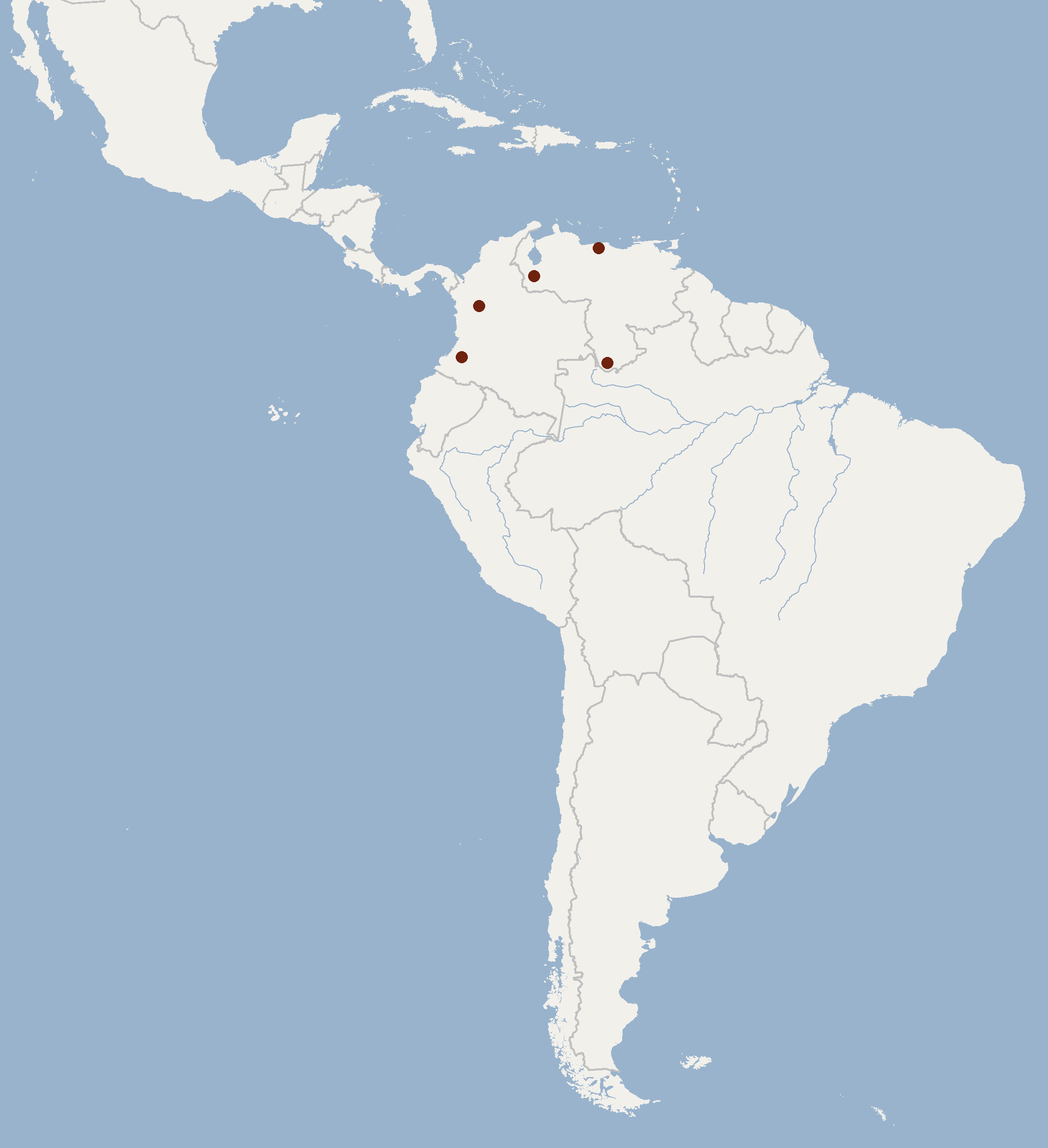 According to Gardner, 2008